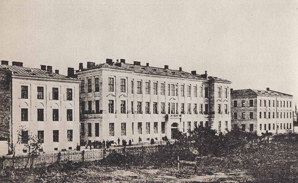 Wawelberg and Rotwand Technical school at 4/6 Mokotowska Street (1897)